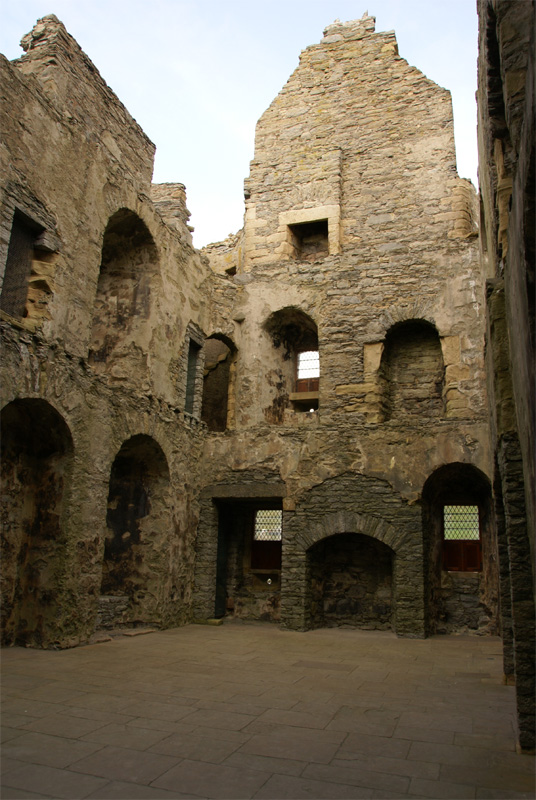 Scalloway Castle, Scalloway, Shetland, Scotland - great hall